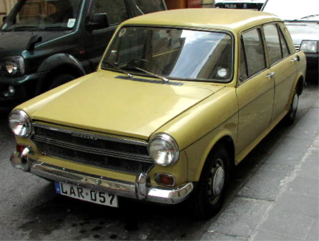 Morris 1100